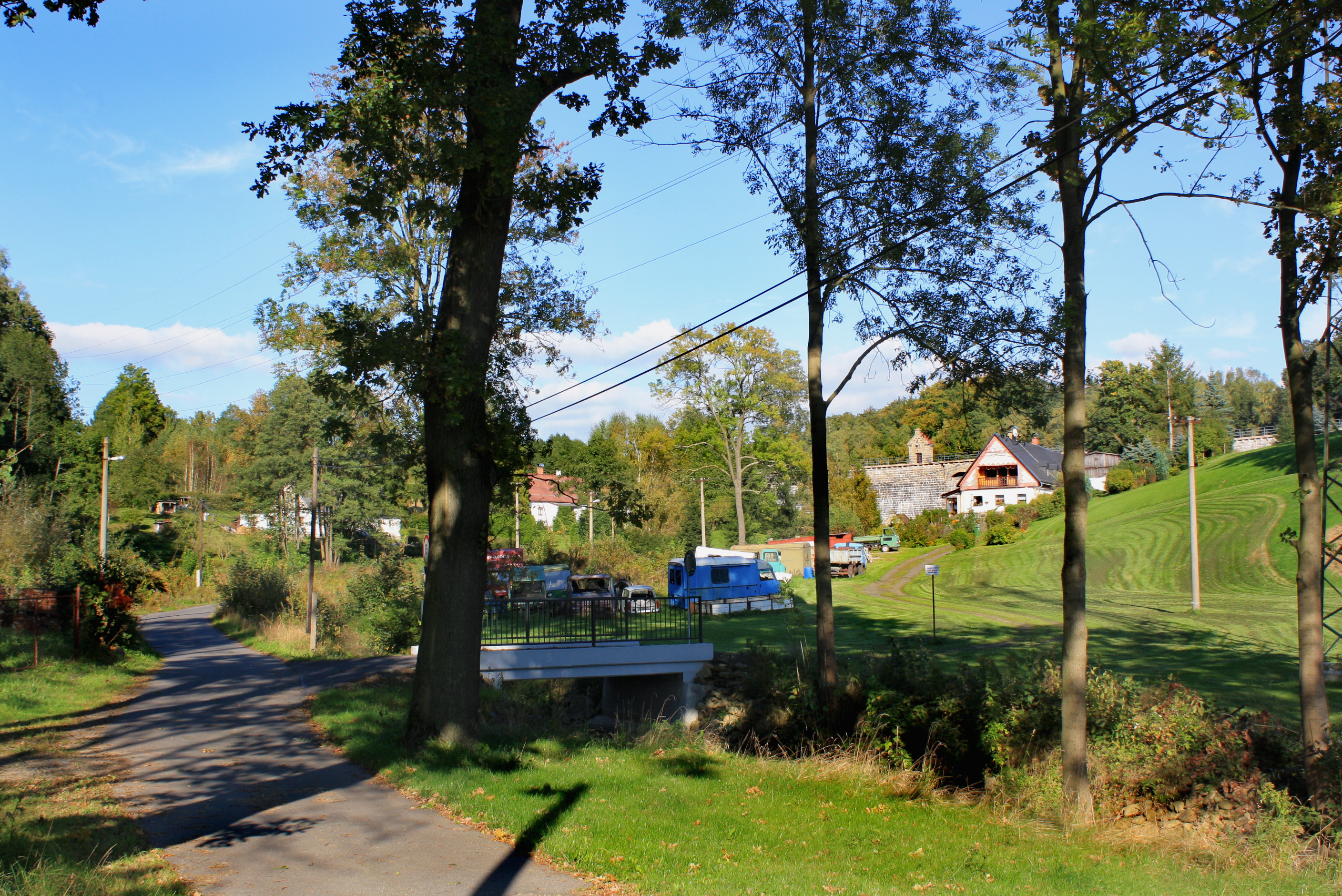 South part of Mlýnice, part of Nová Ves, Czech Republic